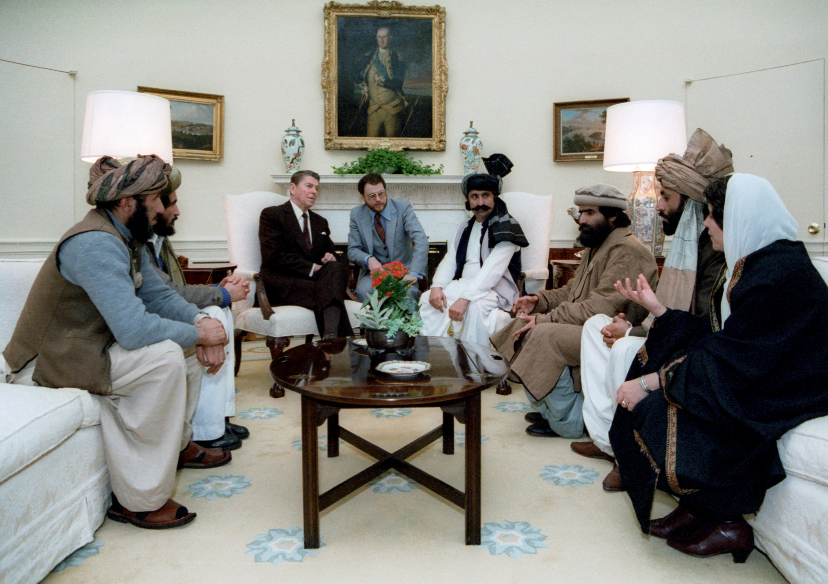 In clockwise order: Ronald Reagan; Gust Avrakotos; Muhammad Omar Babarakzai; Mohammad Ghafoor Yousefzai; Habib-Ur-Rehman Hashemi; Farida Ahmadi; Mir Niamatullah and Gul Mohammad.Original caption: "C12820-32, President Reagan meeting with Afghan Freedom Fighters to discuss Soviet atrocities in Afghanistan. 2/2/83." — Ronald Reagan Library Present: Mir Ne' Matollag, Habib-Ur-Rehman Hashemi, Gol-Mohammed, Omar Babrakzai, Mohammed Suaffor Yousofzai, Farida Ahmadi Caption: Meeting with a group of Afghan Freedom Fighters, Mujahideen, to discuss Soviet atrocities in Afghanistan, especially the September 1982 massacre of 105 Afghan villagers in Lowgar Province.